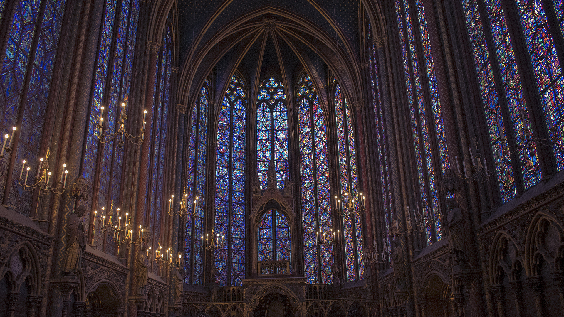 Sainte-Chapelle. This photo was made in 2017